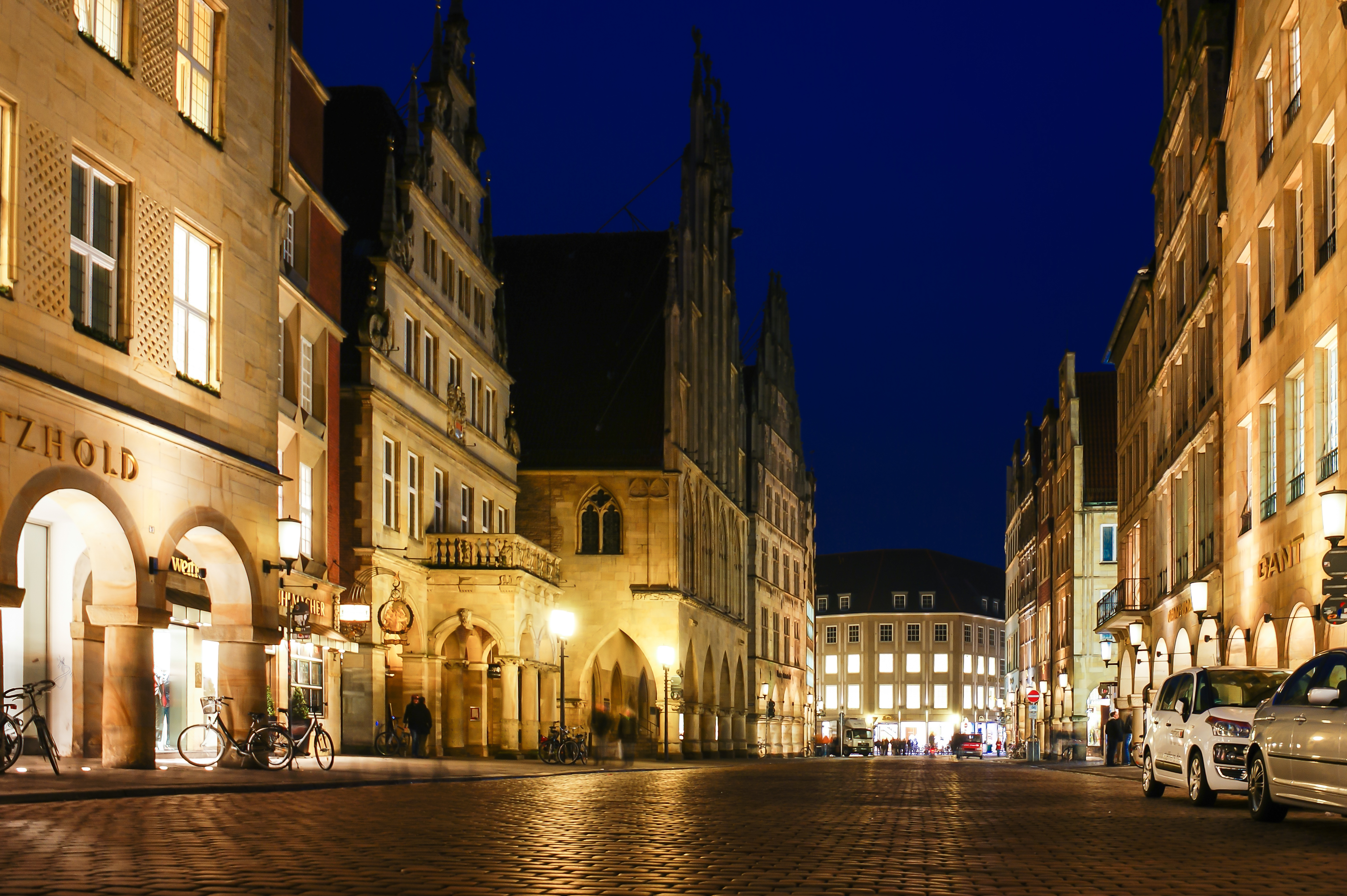 Prinzipalmarkt (Münster, Germany) at night, southward view